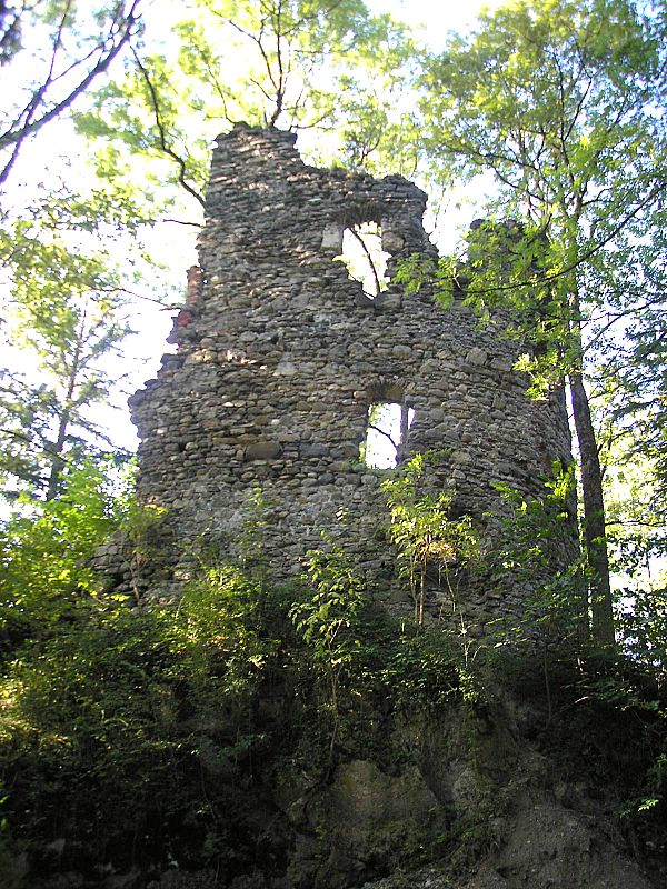 Fluhenstein castle (Berghofen, Stadt Sonthofen, Landkreis Oberallgäu, Bavaria, Germany). The keep, seen from the east